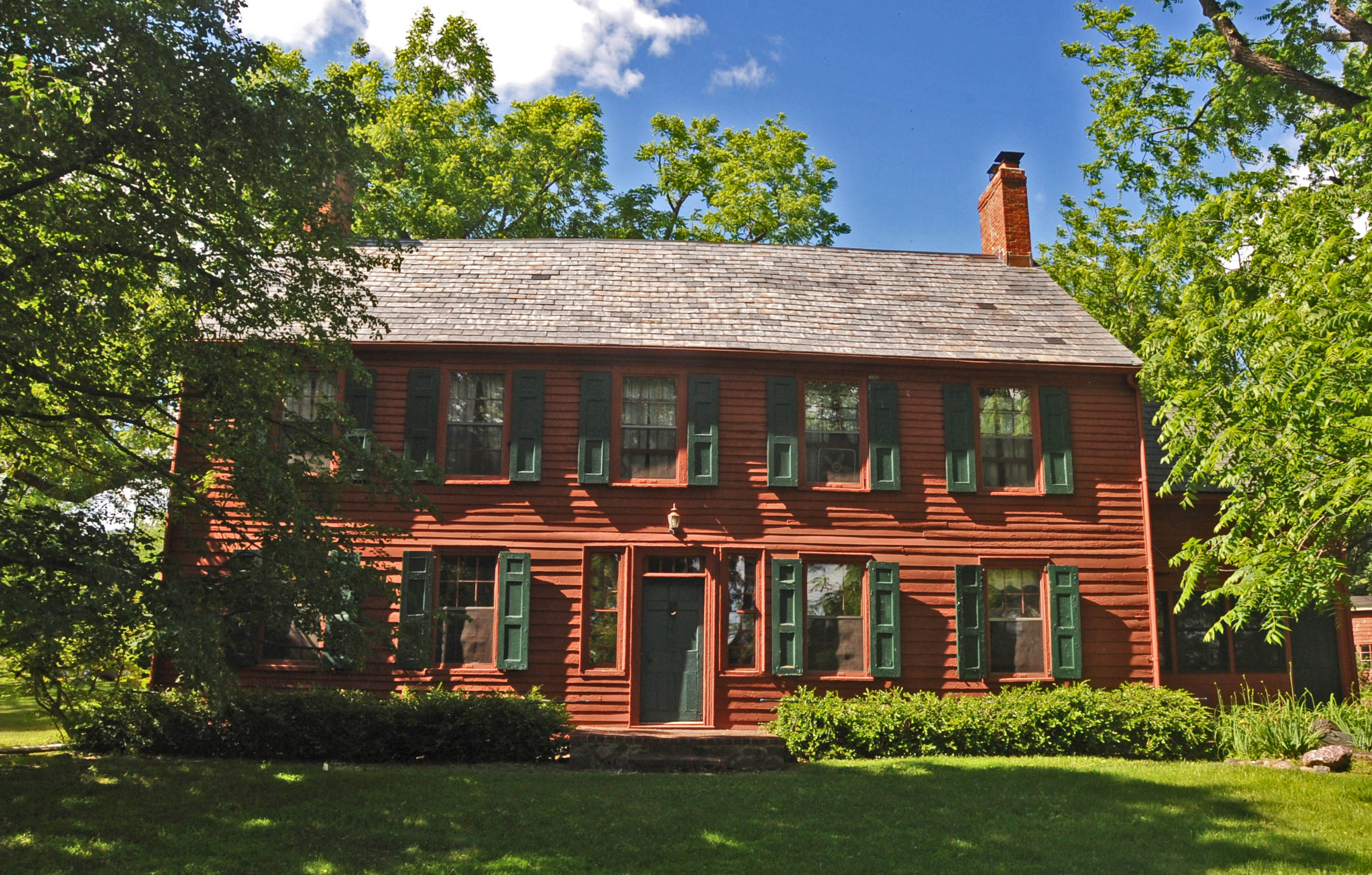 BUILT IN 1763 BUT EXTENDED AND COMPLETED IN 1793